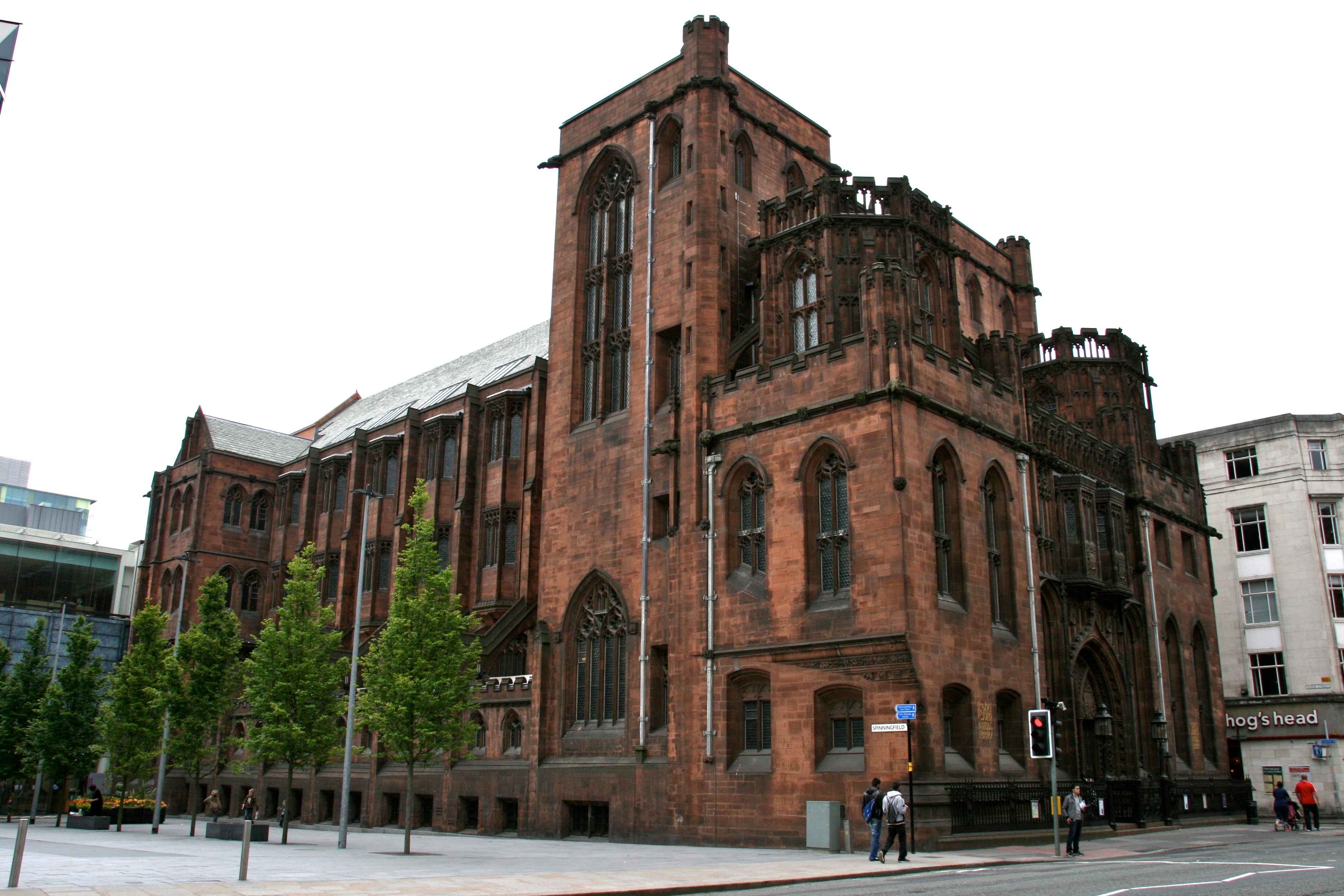 John Rylands Library, Manchester, England.